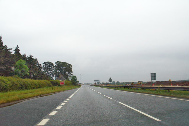 A74 - The last 10Km It is often said a motorway runs all the way from Folkestone to Perth in Scotland. This isn't true - but it soon will be. This is the last stretch of the A74 remaining, and runs for 10Km from the end of the M74 in Scotland, to the M6 in England. This last section of the link - on English soil - is only now being upgraded, and this dual carriageway will soon be consigned to history when the M6 is finally extended to the Scottish border, to meet the M74 at last.